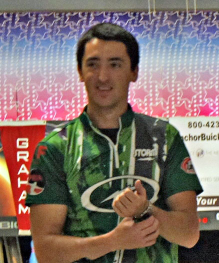 American ten-pin bowler Marshall Kent (bowler) on August 20, 2017 in Middletown, Delaware, U.S.